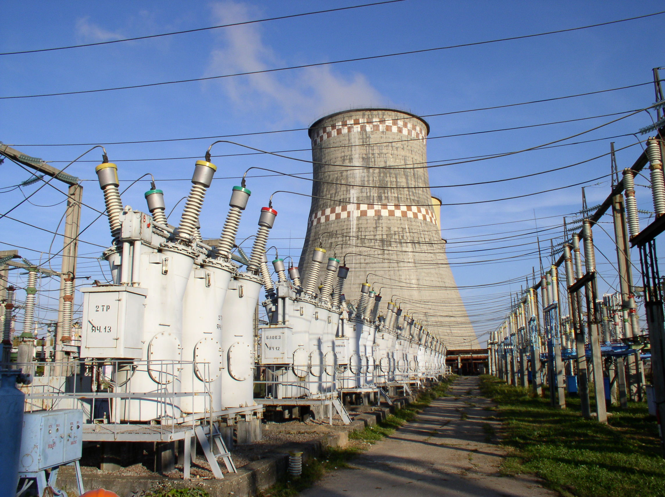 Power plant 4. Minsk, Belarus.